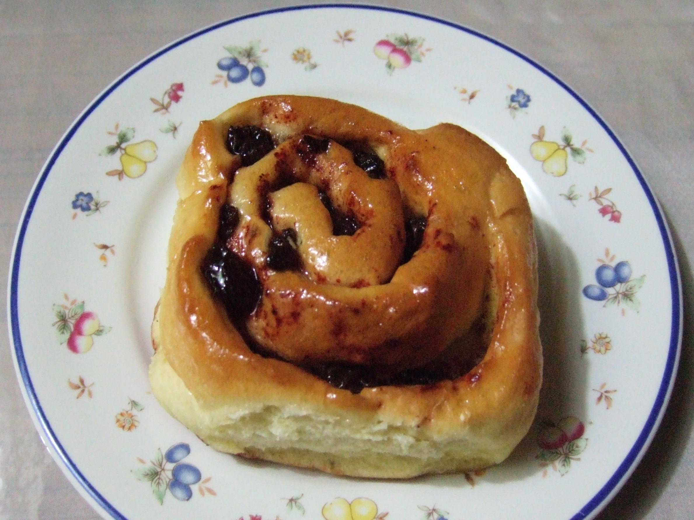 Cinnamon rolls, Jakarta, Indonesia